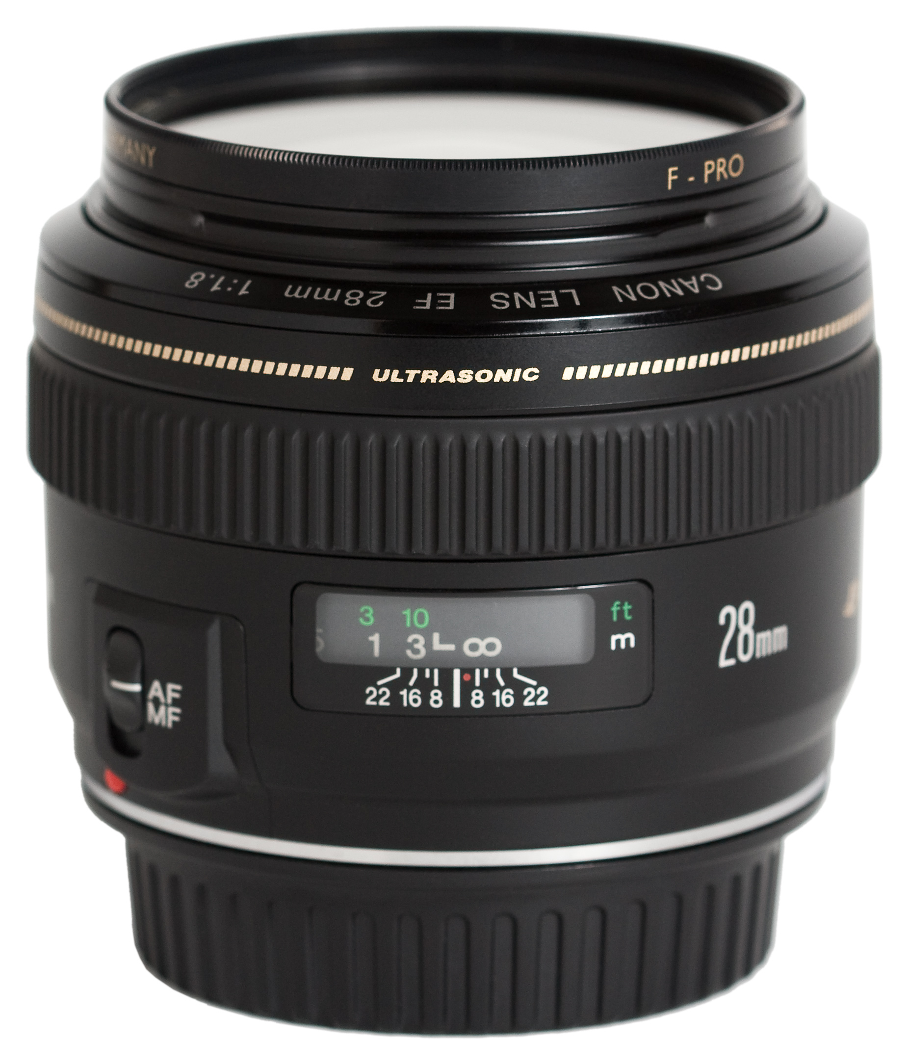 Canon EF 28mm f/1.8 USM lens with 58mm B+W UV (non-MRC) filter.